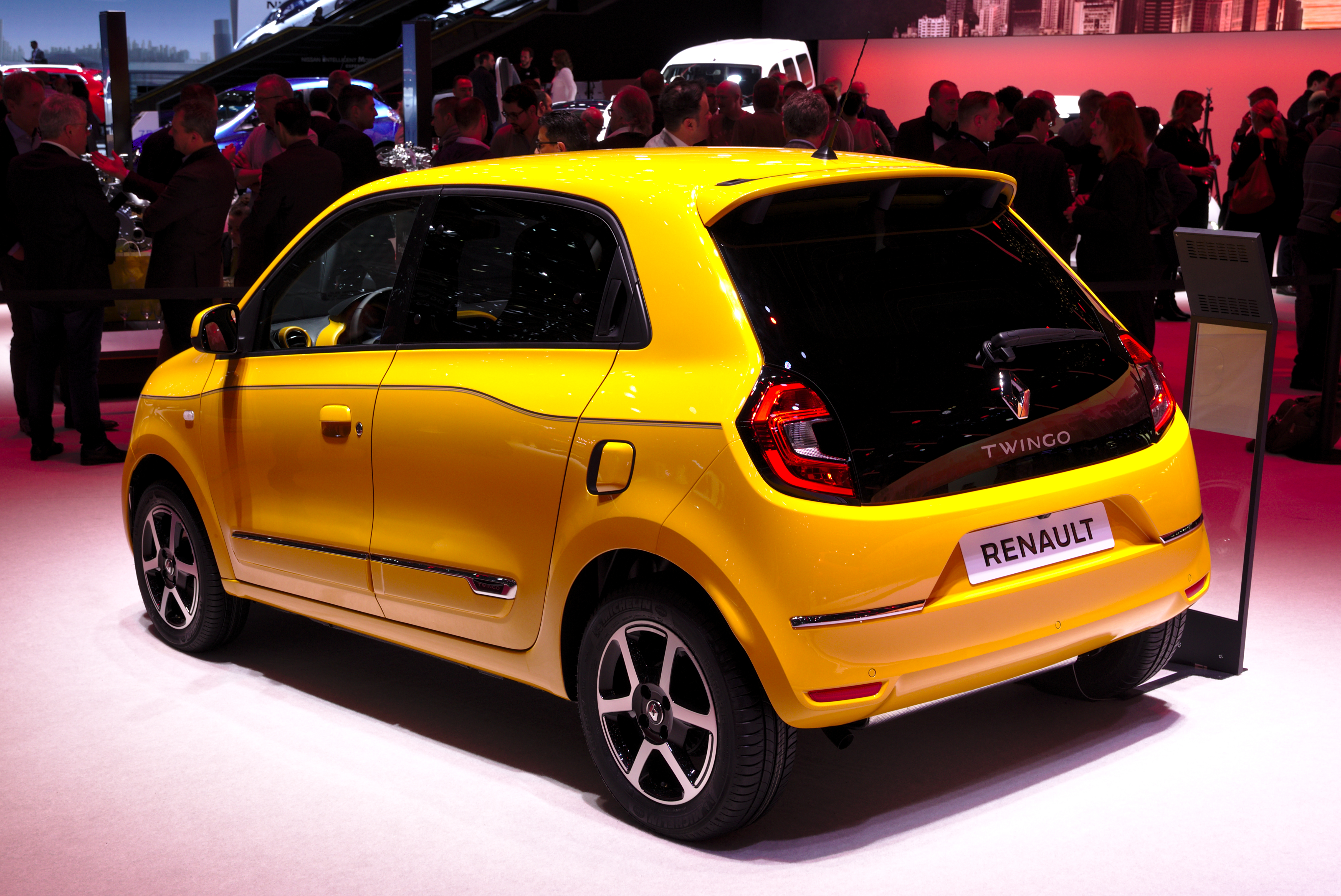 Renault Twingo at Geneva Motor Show 2019